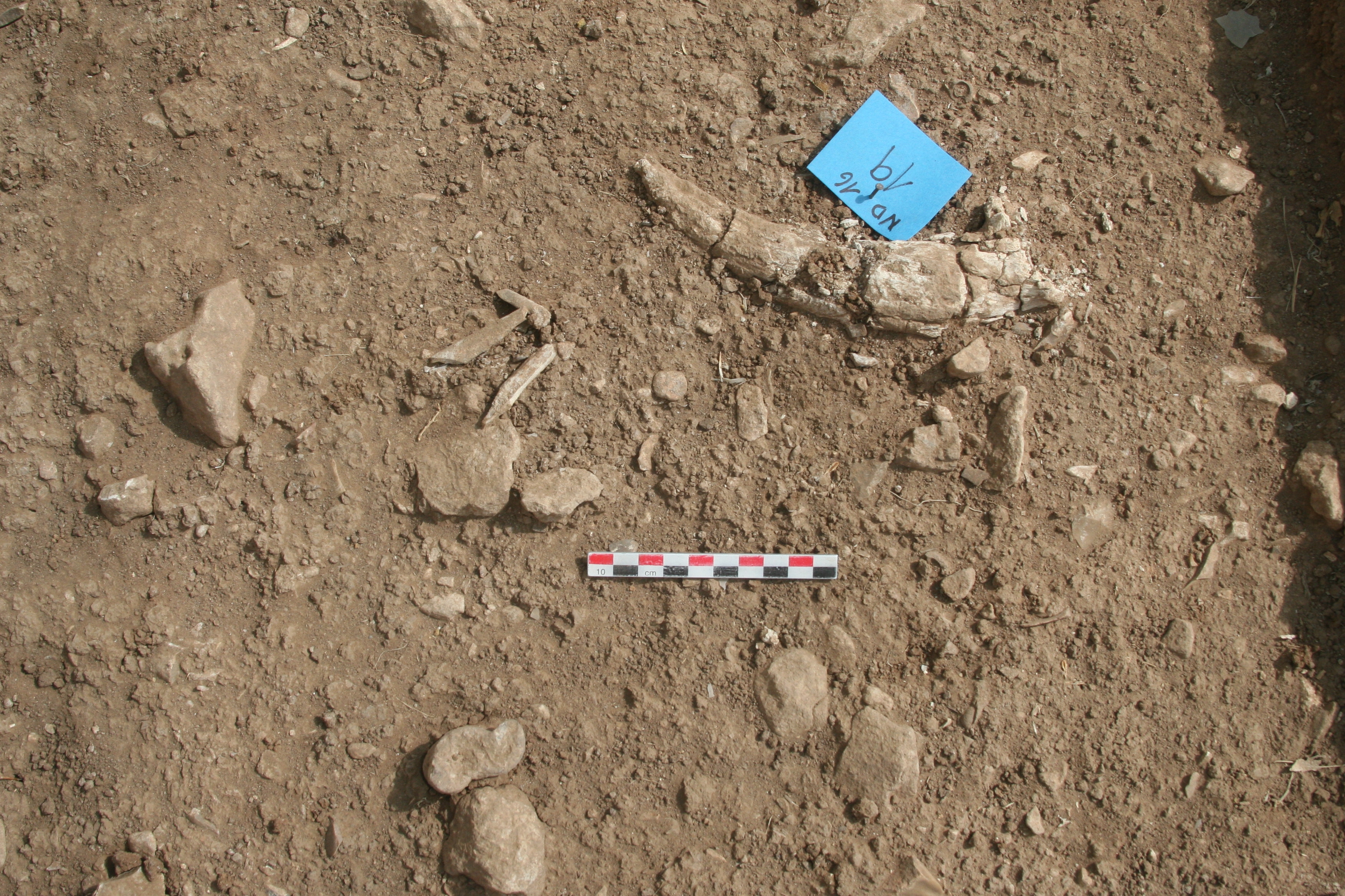 Neve David prehistoric excavation: exposing gazelle horn in an ancient living level.